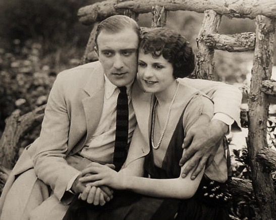 Frank Mayo and Louise Lorraine in the American drama film The Altar Stairs (1922) - cropped screenshot